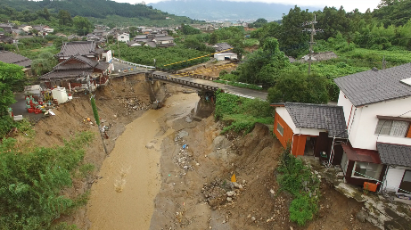 Kita River was overflowed by the Northern Kyūshū Heavy Rain in Asakura City, Fukuoka Prefecture on July 7, 2017.